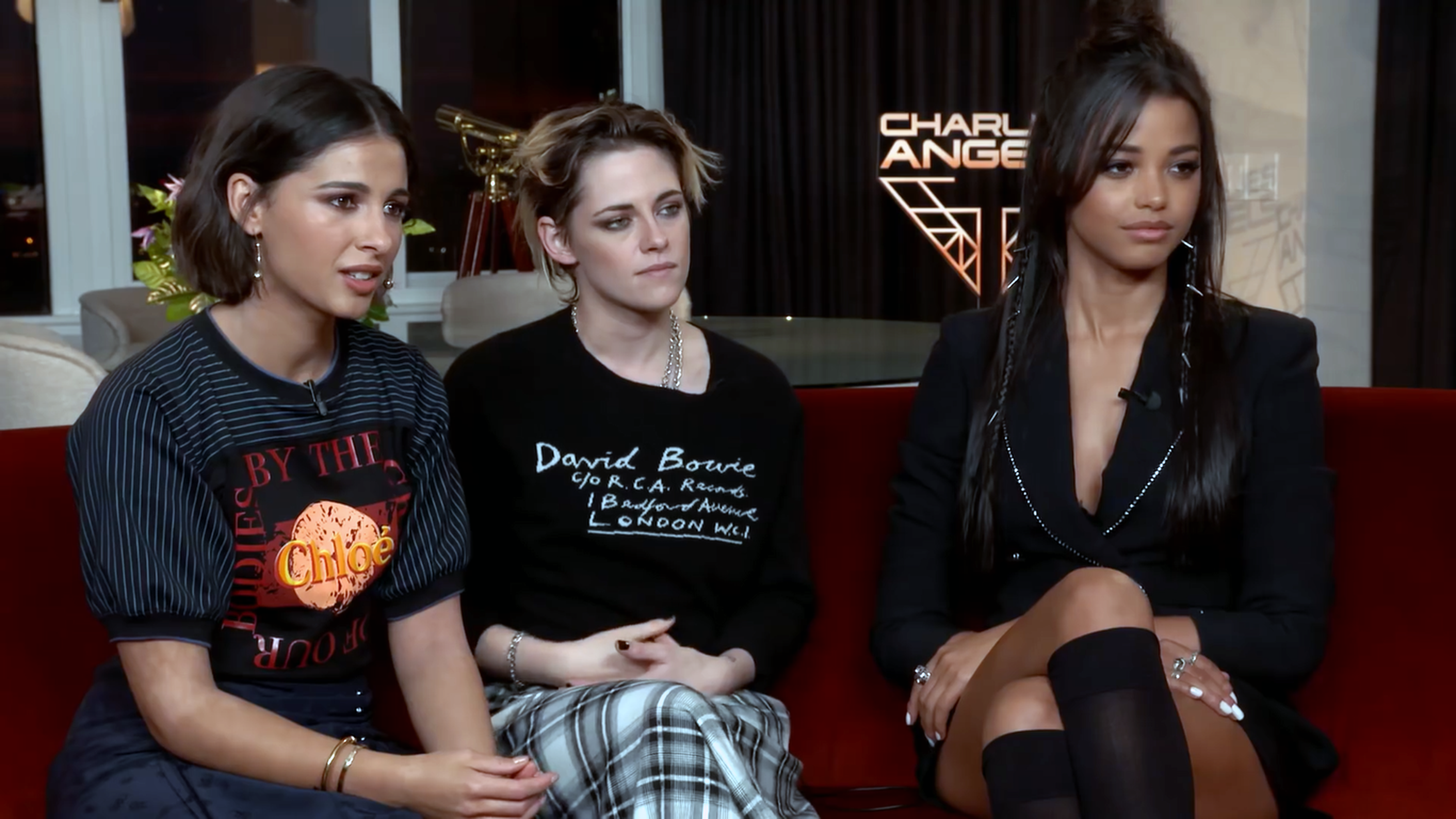 Charlie's Angels cast during interview, November 2019.